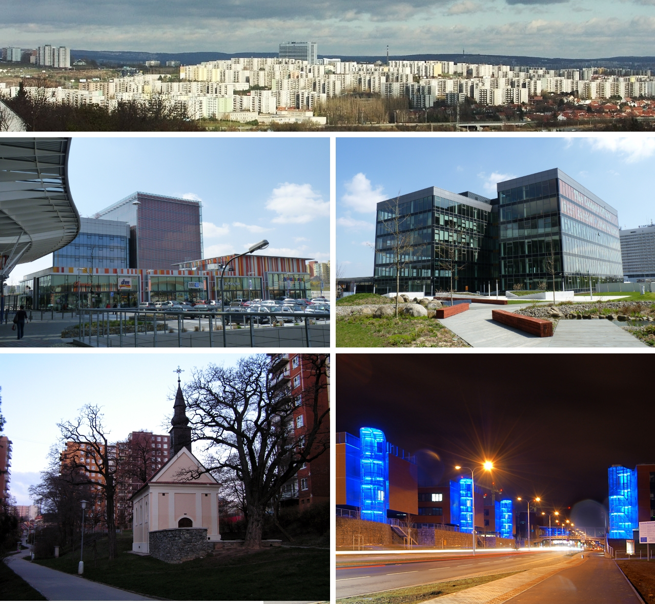 Housing estate Bohunice and Starý Lískovec from south